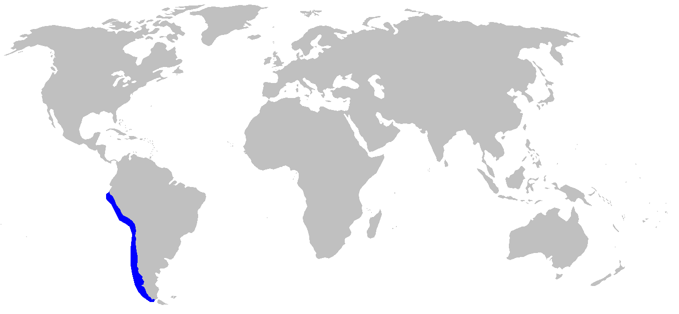 Distribution map for Mustelus whitneyi